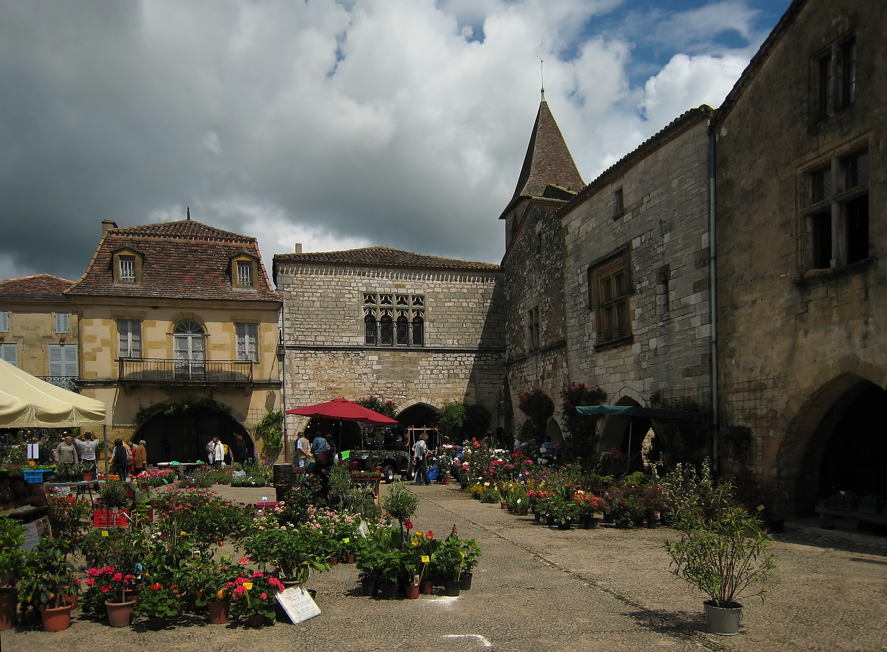 Main square in the bastide of Monpazier; the village is situated in the Département of Dordogne/France